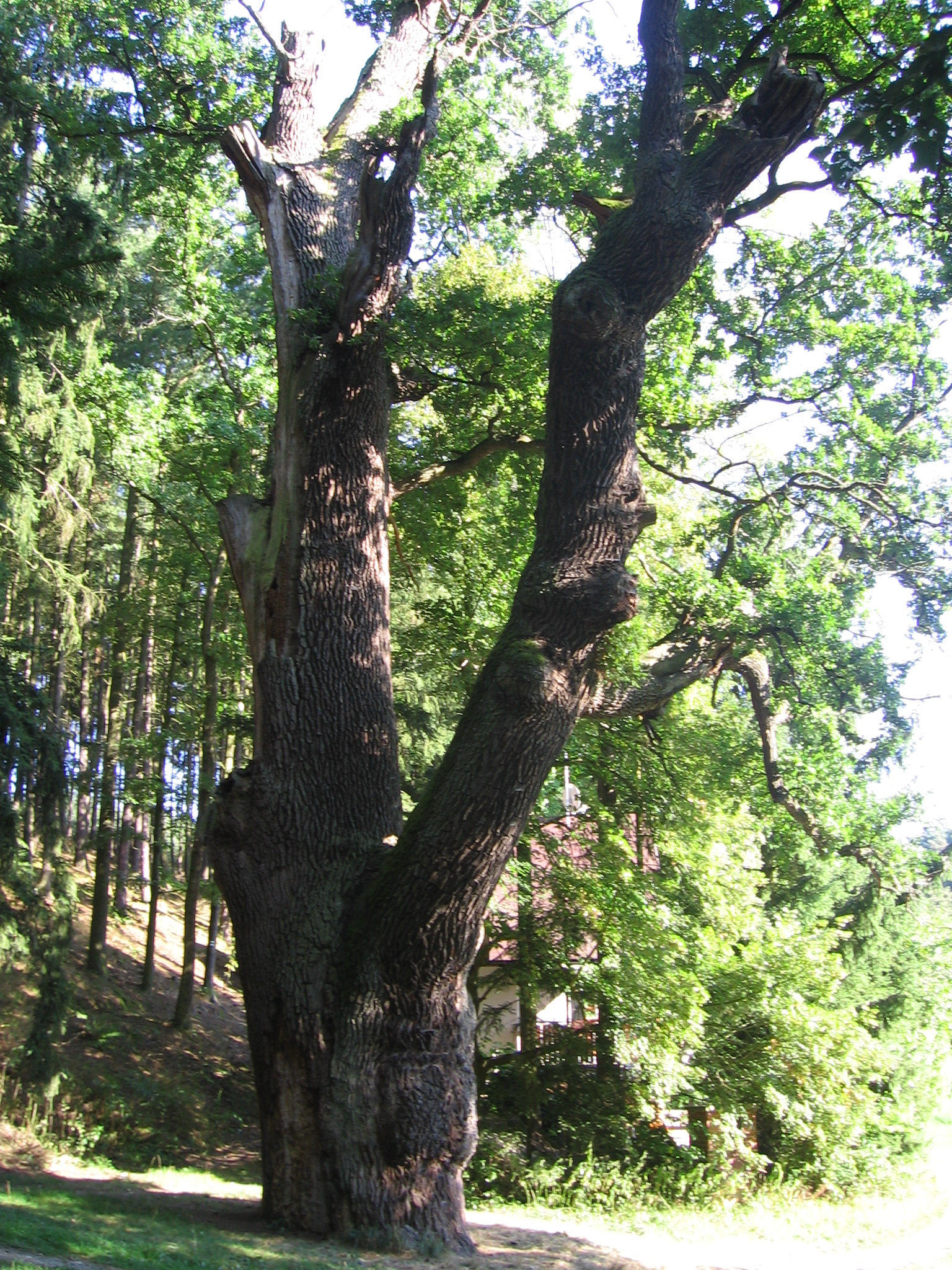 Žižkův dub - Pedunculate Oak by the Mže river, close to the dam of the Hracholusky reservoir, located in Plzeň-sever District, Czech Republic